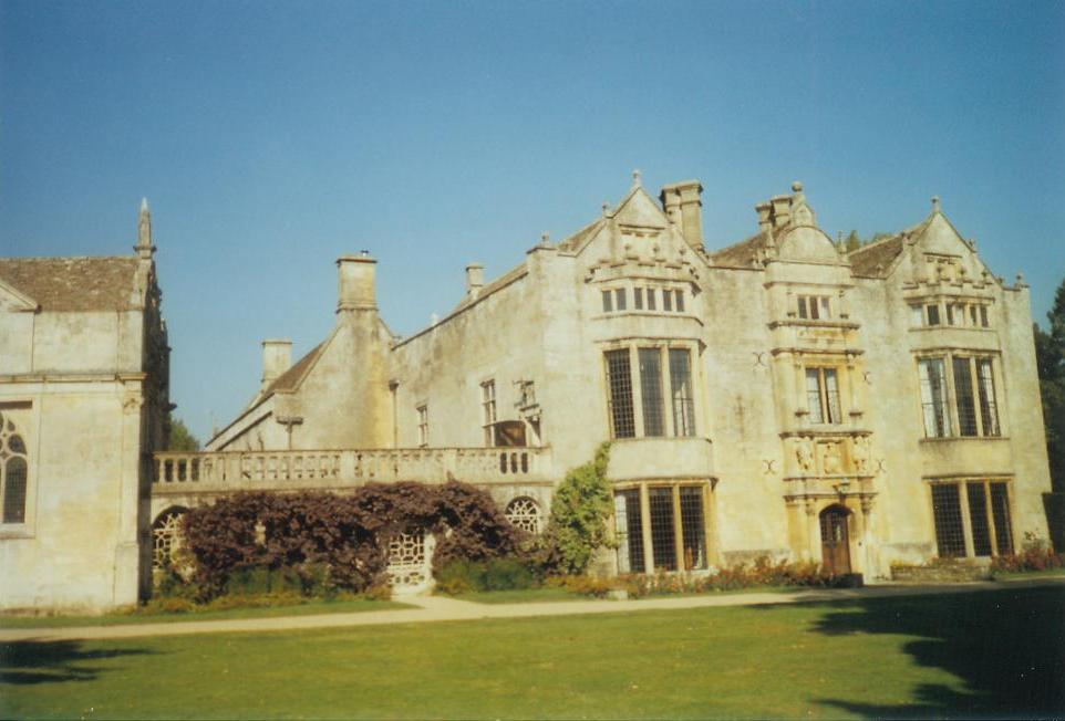 Priory of Our Lady, Burford, Oxon., England